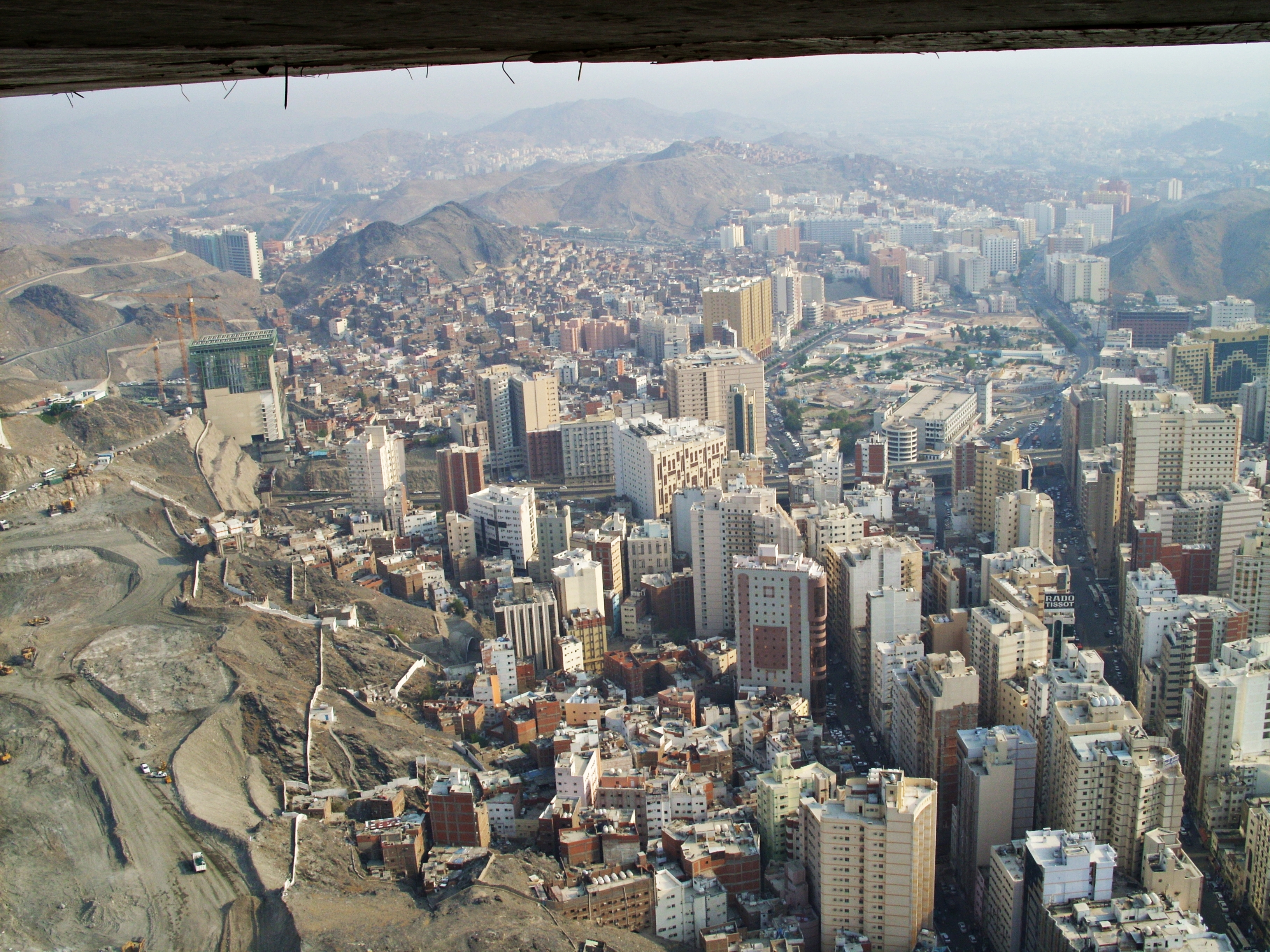 Makkah (Mecca), Saudi Arabia, as seen from the still under-construction Abraj Al-Bait.